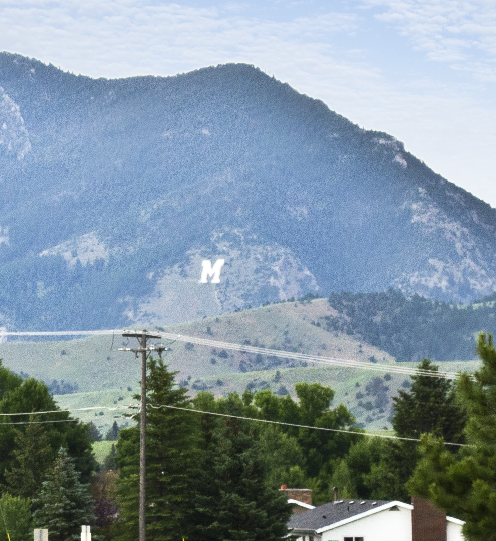 The giant white-washed rock "M" for Montana State University, on the west slope of the southern ridge extending from Mount Baldy (8,914 feet/2,717 m) in the Bridger Range. Near Bozeman, Montana. The 250-foot-tall "M" was built in 1915 by Montana State University students. After the establishment of Bozeman High School in 1936, a 250-foot-tall "B" was built next to it. The B has fallen into neglect; although it still exists, it is no longer whitewashed, vegetation has overgrown it, and it is no longer visible from the valley below. The M, too, fell into disrepair in the 1980s. But the former director of the MSU Agricultural Cooperative Extension Service, Torlief S. Aasheim, resolved to have the tradition of maintaining the M restored. Aasheim paid to have the vegetation removed and the M repainted, and he encouraged students to refurbish it annually. Maintaining the M is now done each year the weekend before football homecoming. There is also an "M Run" mini-marathon each year up the side of the mountain and down again.